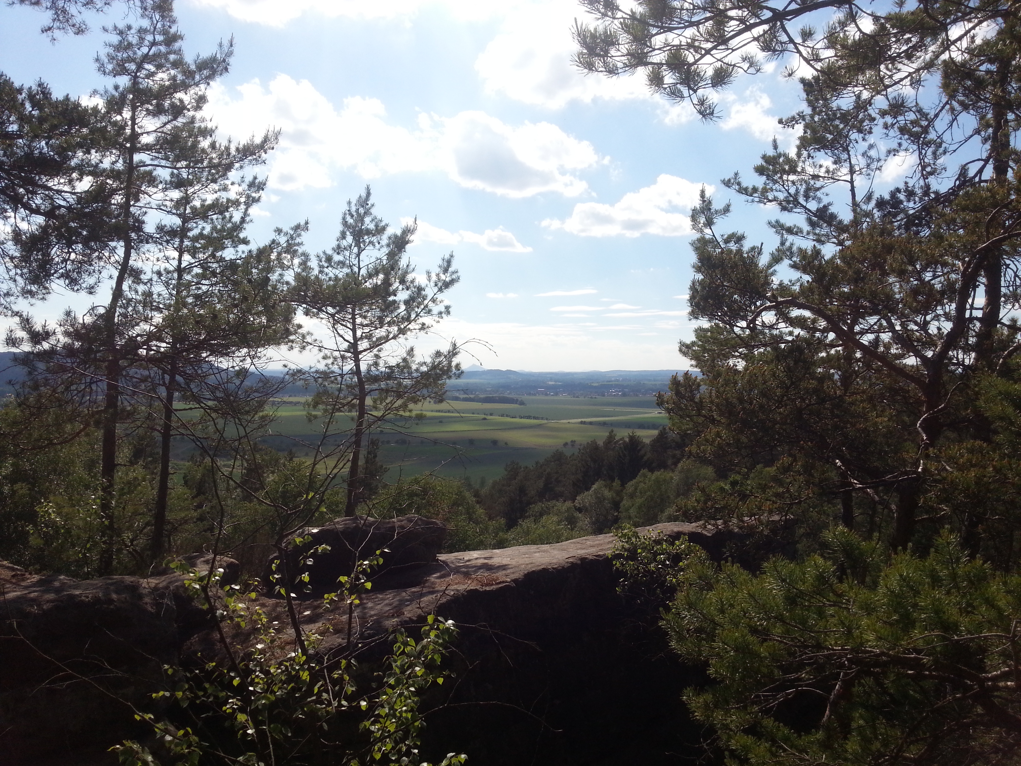 View of viewpoint.